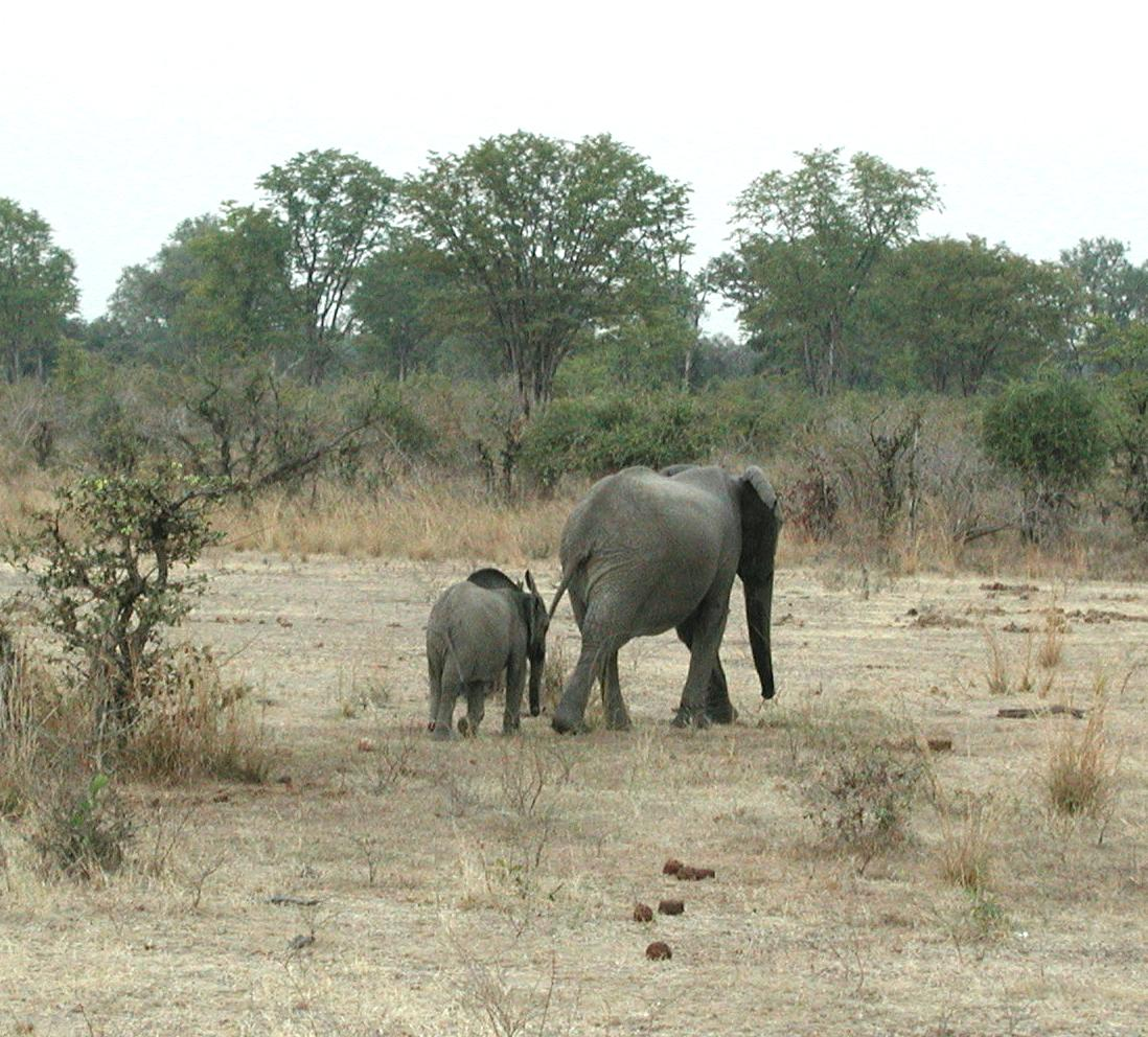 An african elephant (Loxodonta africana) mother with her baby in Zambia.